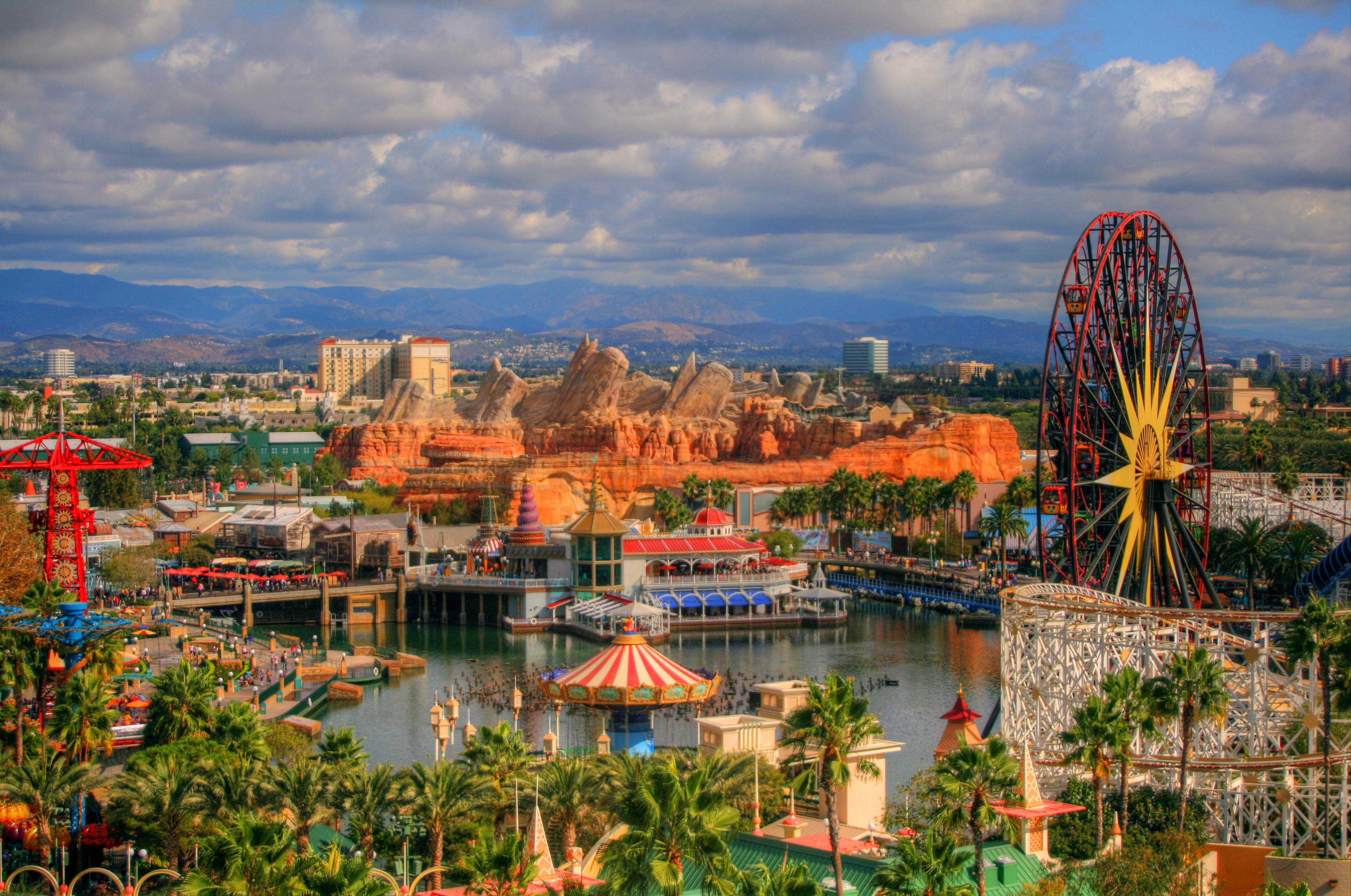 DCA from Paradise Pier Hotel